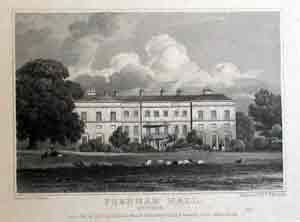 Old Print of Fornham Hall